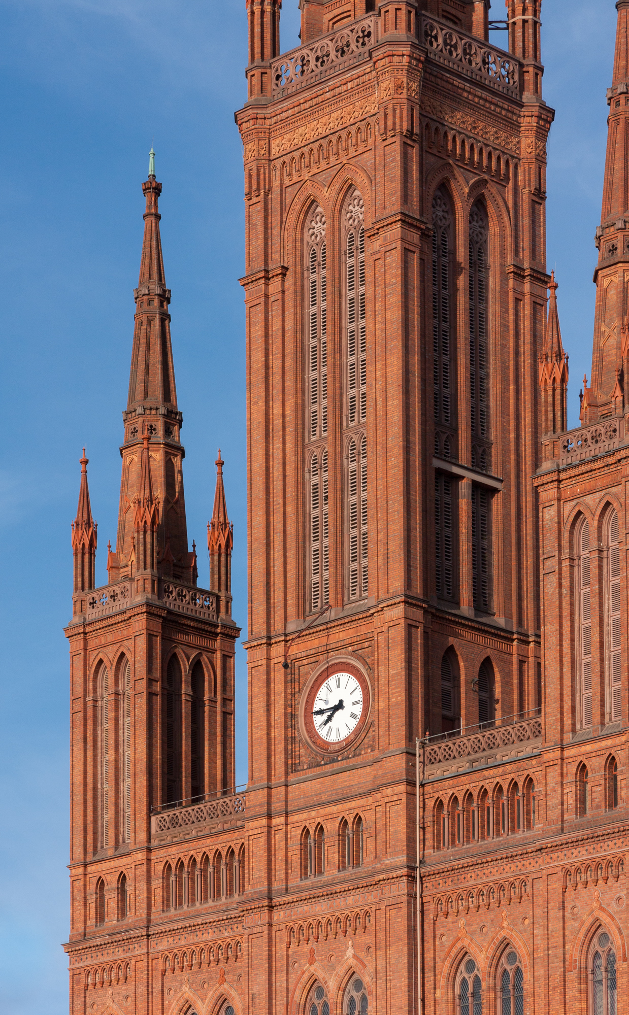 Marktkirche in Wiesbaden, CloseUp of the clocktower